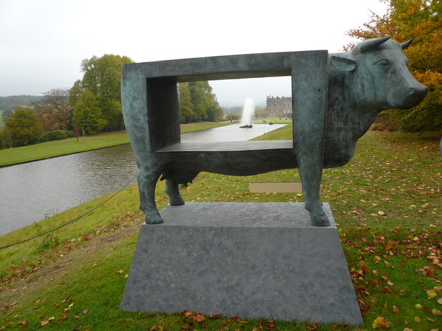 Chatsworth Gardens An unusual view looking towards the Emperor Fountain. This work by Francois-Xavier Lalanne entitled Vache Paysage (Le Grand) is part of the Sotheby's 'Beyond Limits' selling exhibition of monumental sculptures on display in the garden until November 4th 2007.